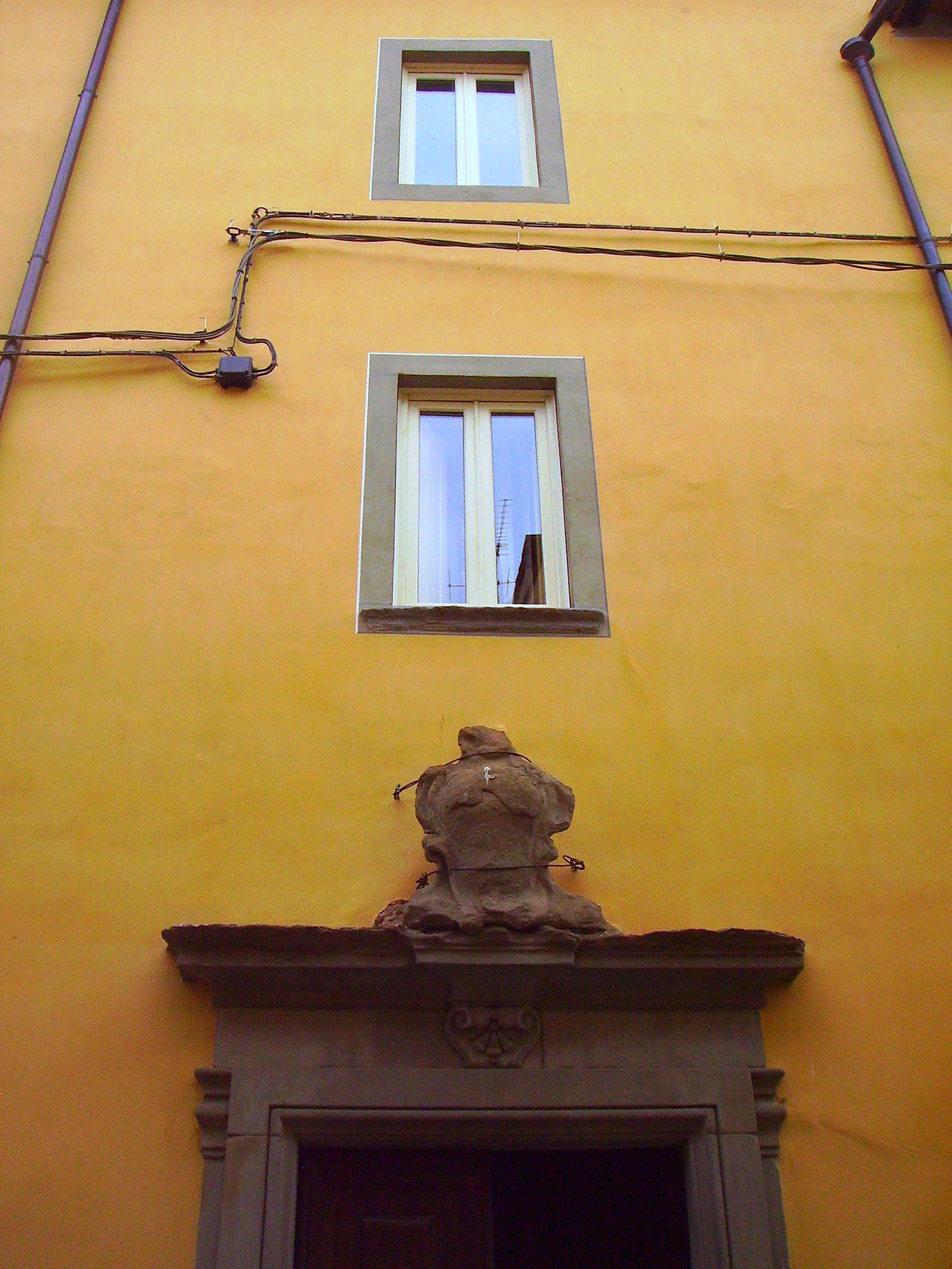 The main entrance of the former Monastery of Santa Maria del Latte (Holy Mary of the Milk) in Montevarchi